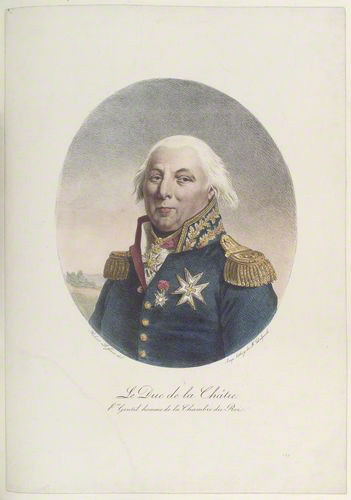 Claude Louis, duke of La Châtre (François Séraphin Delpech, (1778-1825) Robert. Lefèvre (1756-1830))